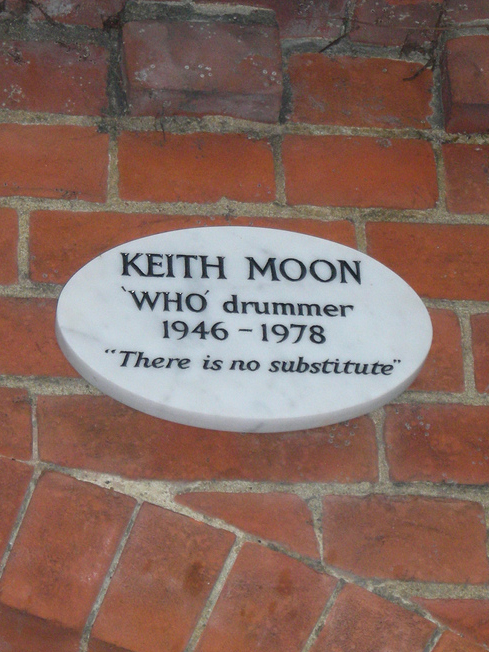 Keith Moon's plaque at Golders Green Crematorium, London, England